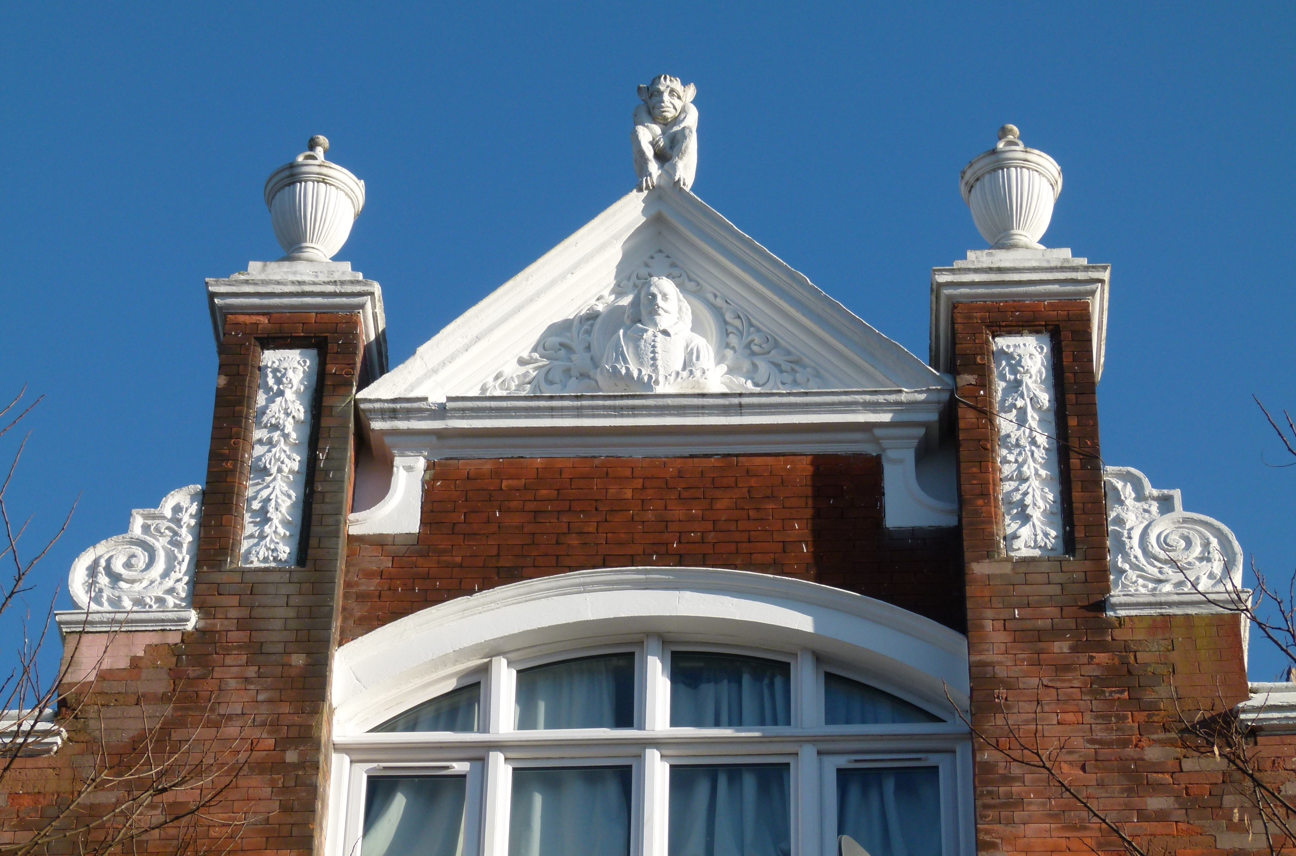 Detail of late-Victorian building in Powis Street, Woolwich, southeast London, UK.